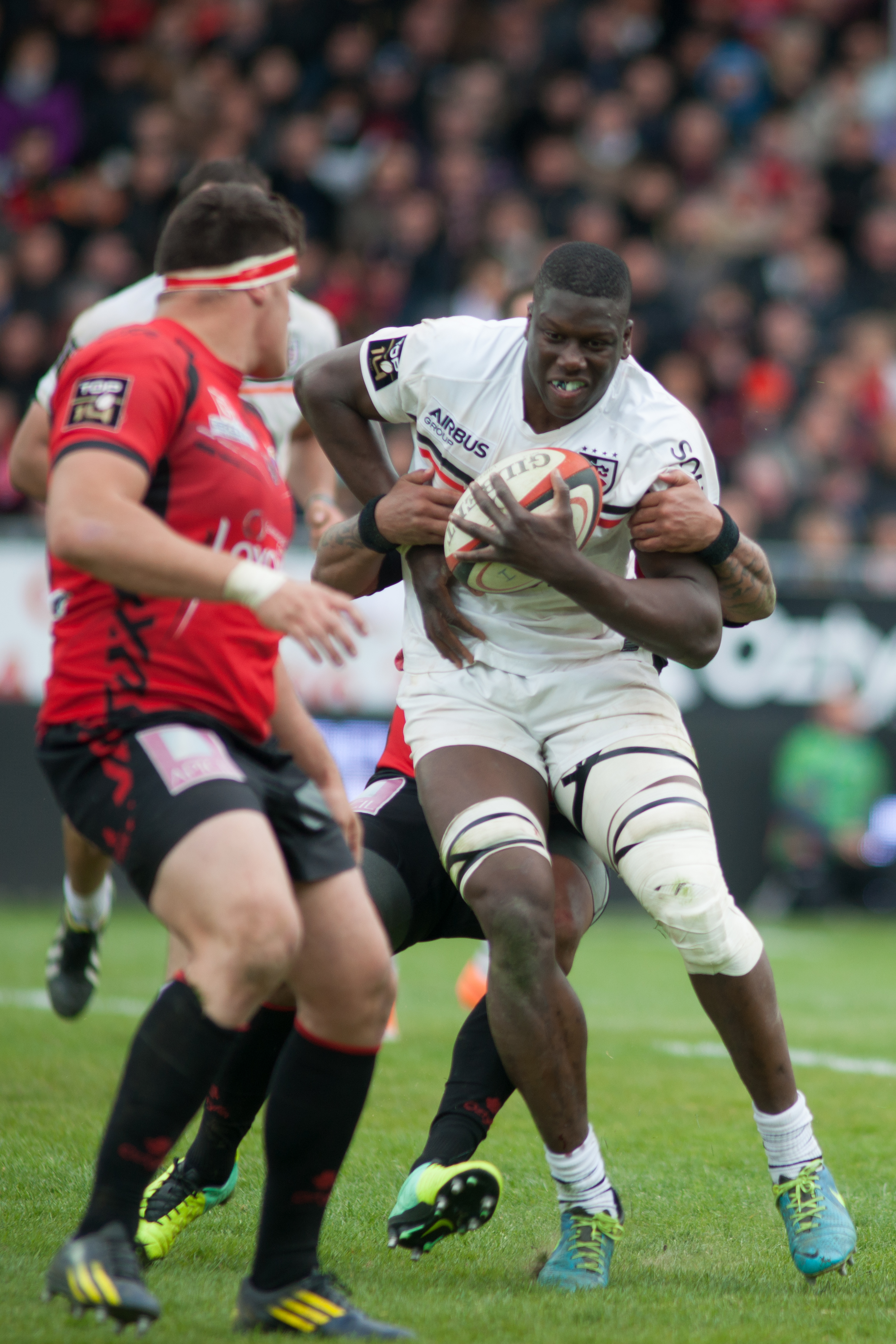 The making of this document was supported by Wikimedia CH. (Submit your project!) For all the files concerned, please see the category Supported by Wikimedia CH. US Oyonnax vs. Stade Toulousain, 19th April 2014